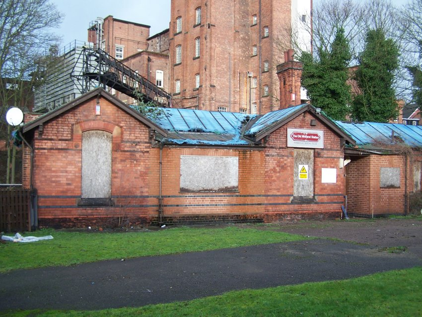 Author: Tina Cordon, Source: Own Picture, Tina Cordon 12:37, 10 January 2007 (UTC)